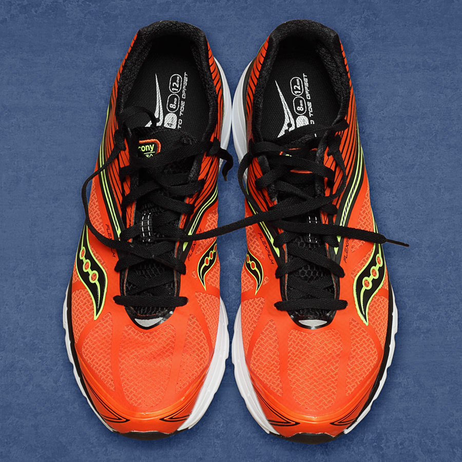 Saucony Kinvara 4 Running Shoes 4mm heel to toe offset. Helps promotes mid-foot strike running form.